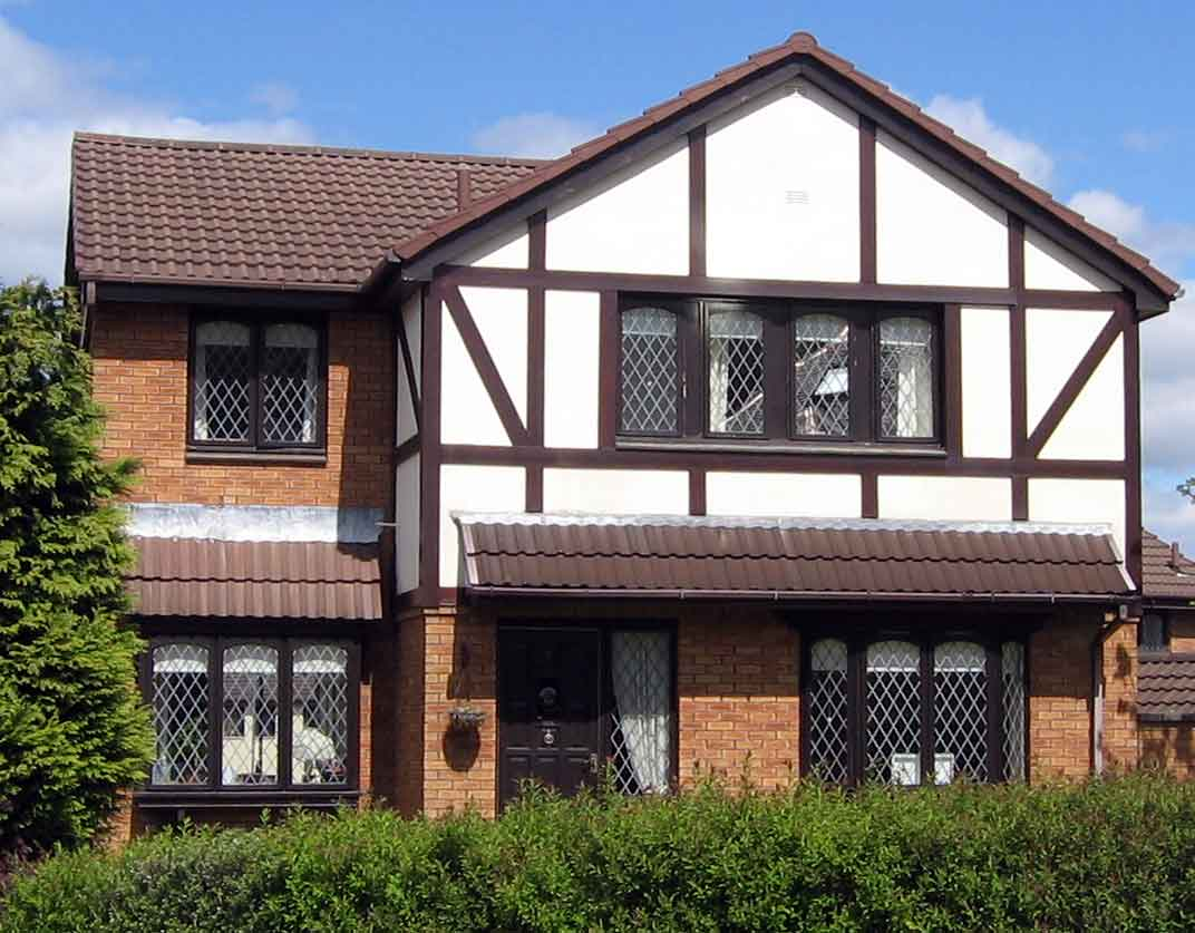 Builder's tudorbethan style house in Greenock, Scotland